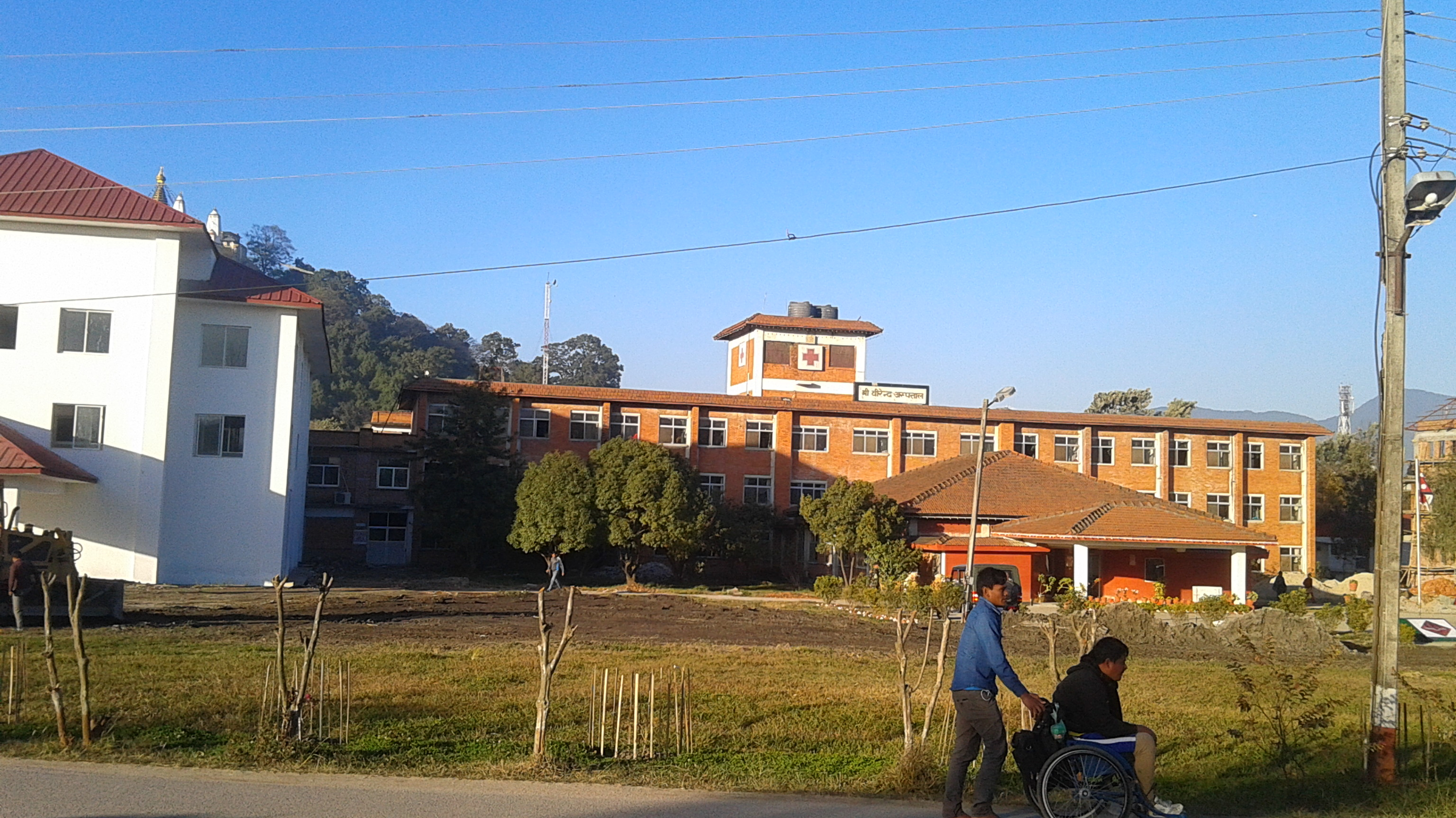 श्री बिरेन्द्र अस्पताल काठमाण्डौ स्थित छाउनीमा रहेको छ ।